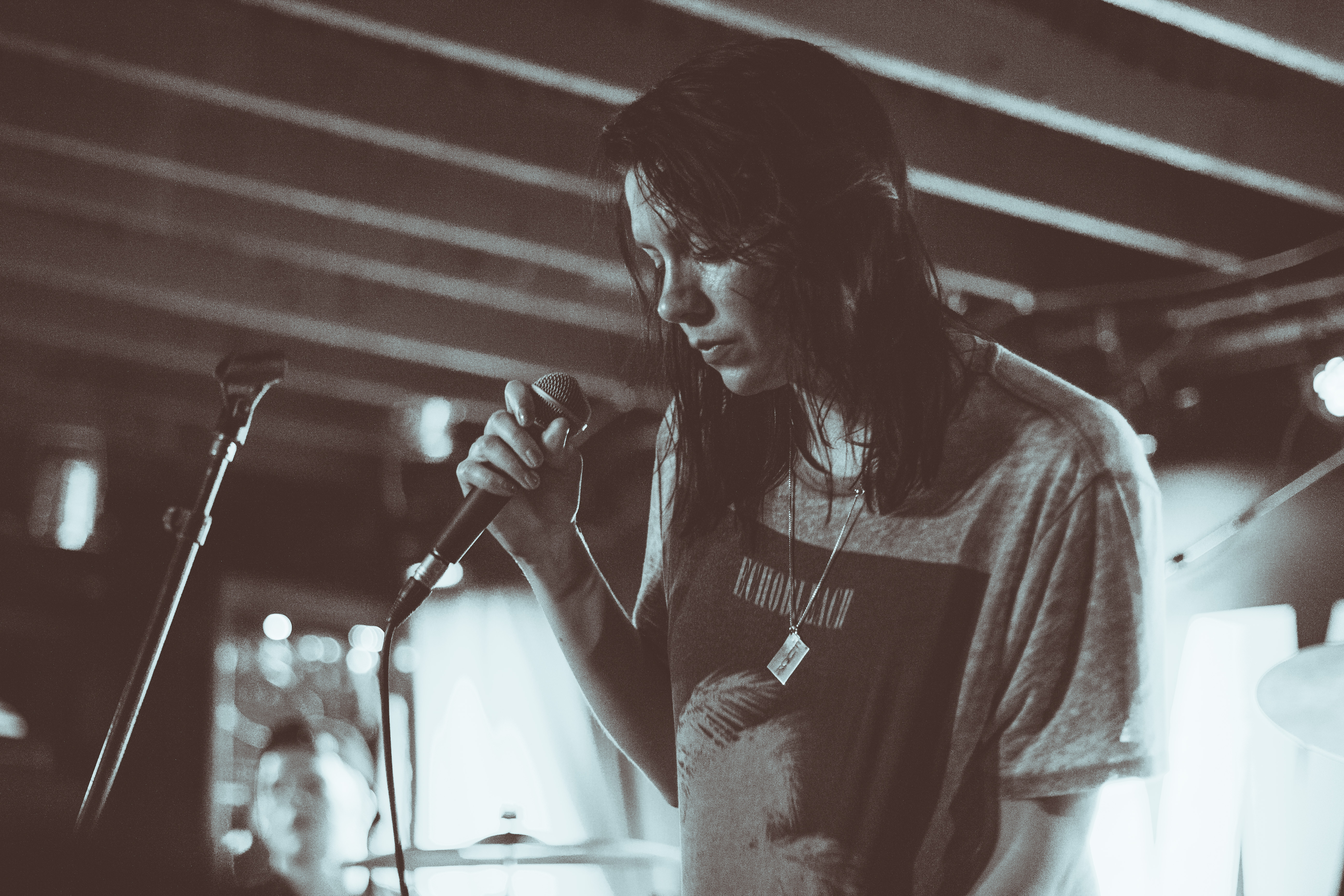 K.Flay performing at an X Ambassadors concert in 2014